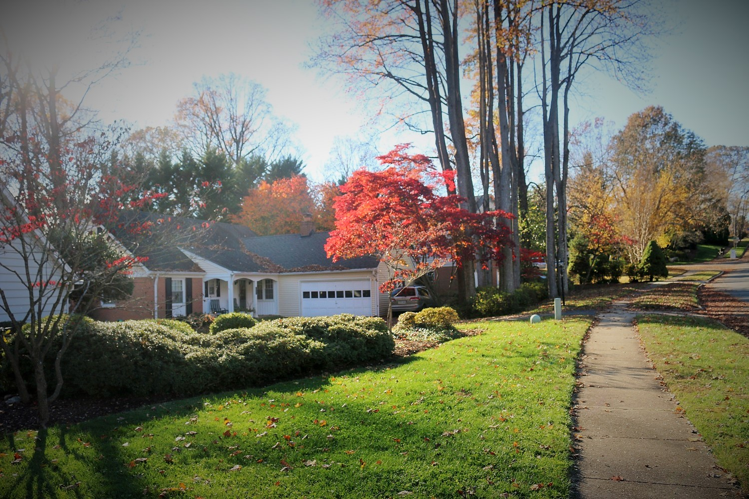 Annandale - Virginia, USA in Nov. 2015 Photo: Persian Dutch Network